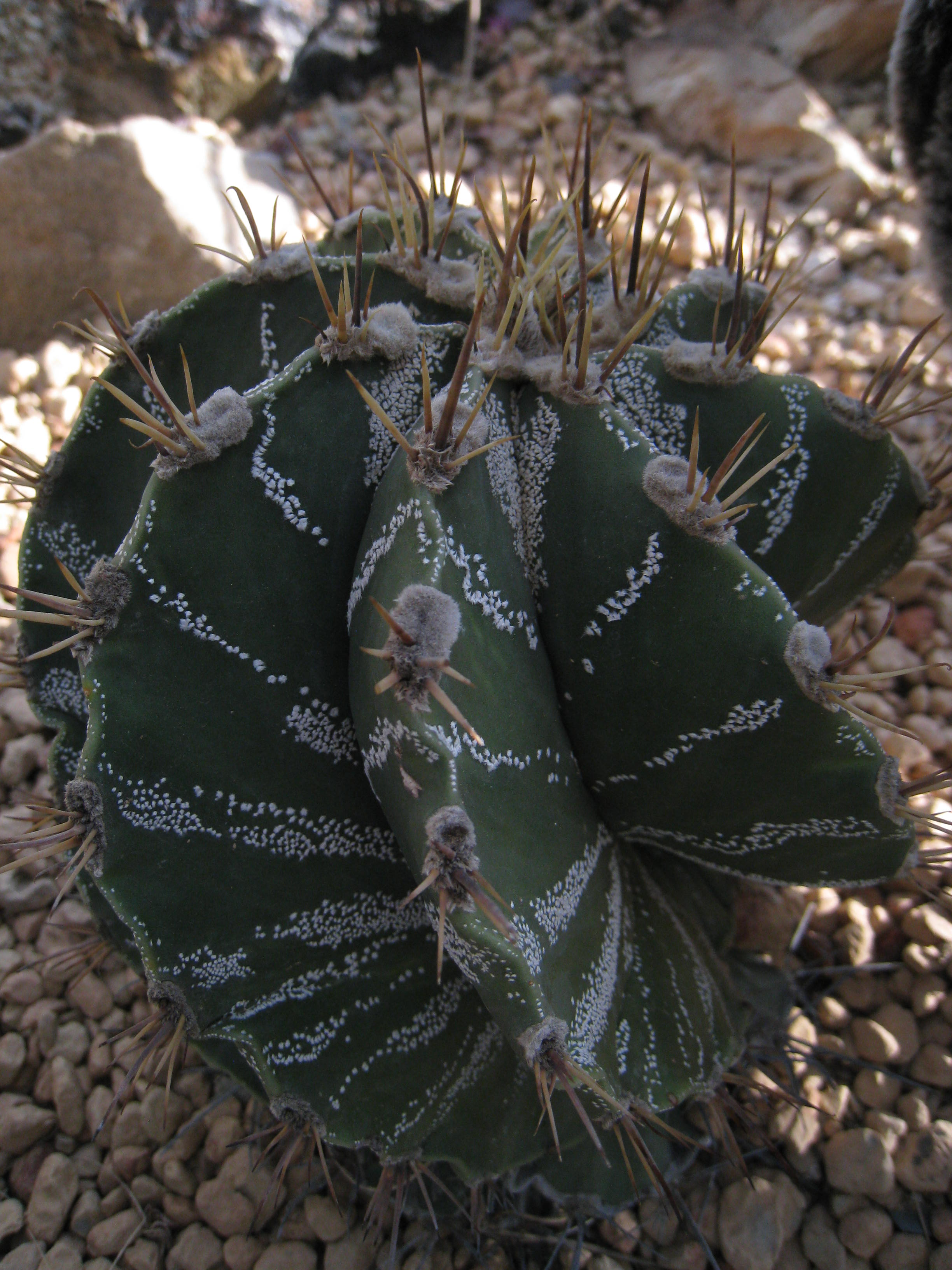 Astrophytum ornatum, in the Brooklyn Botanic Garden